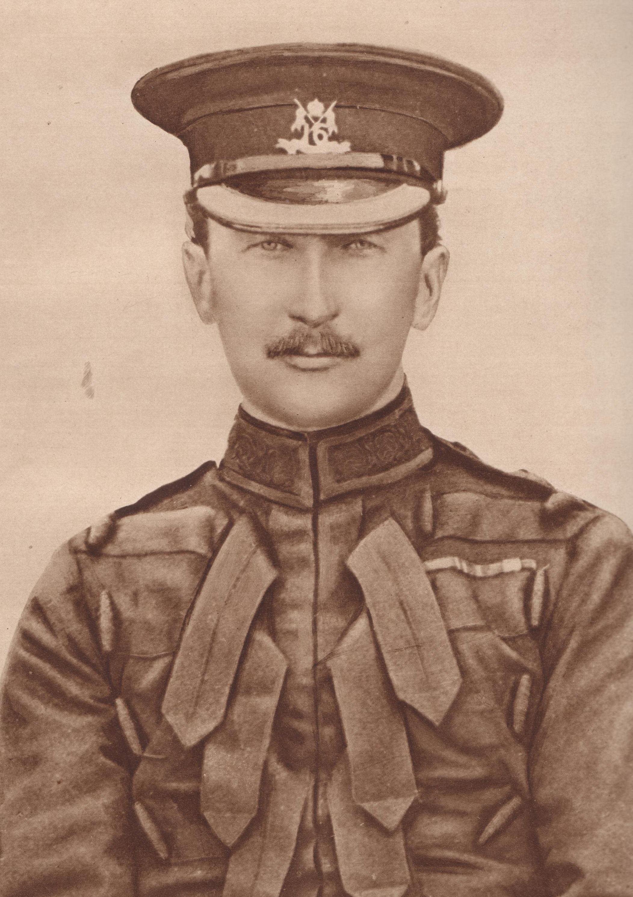 Depicted person: Hubert Gough – British Army general